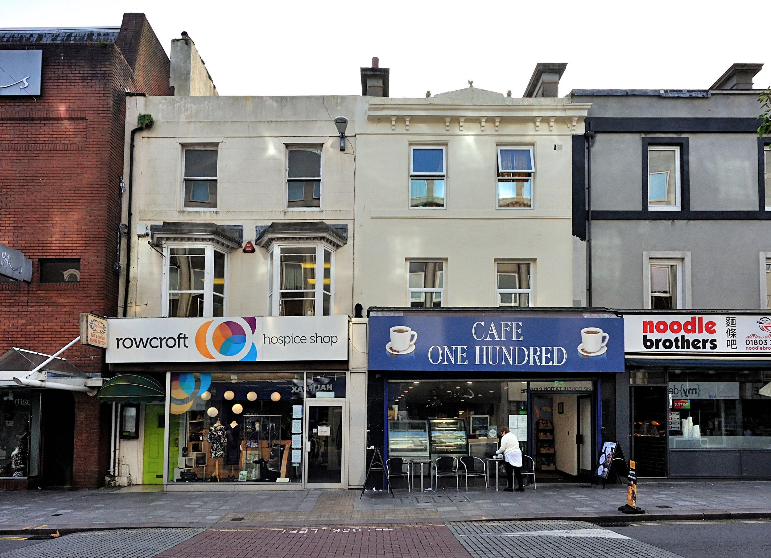 Two buildings on Union St Torquay with shop fronts and premises above. Photo taken for en.wikipedia article on Frank Matcham.